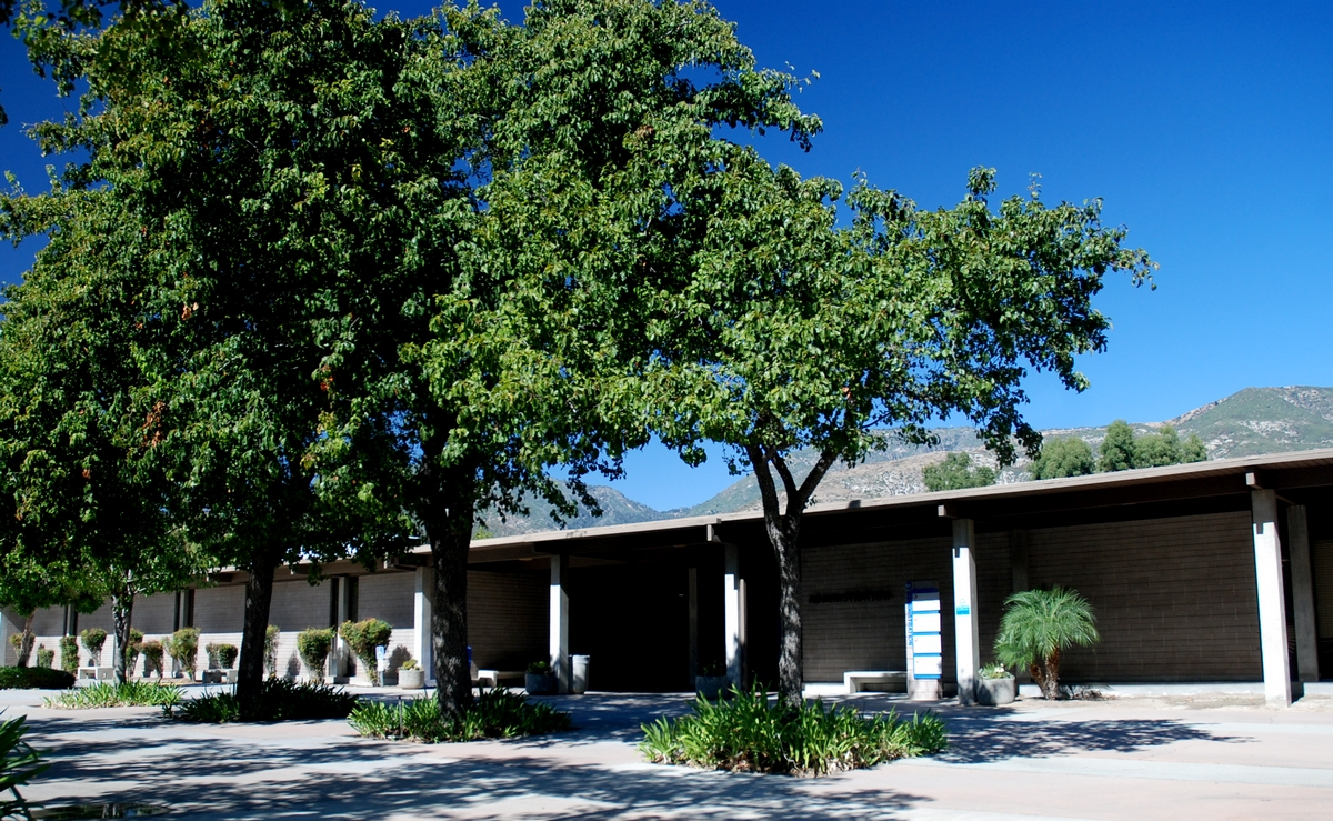 Headquarter of Phi Beta Delta